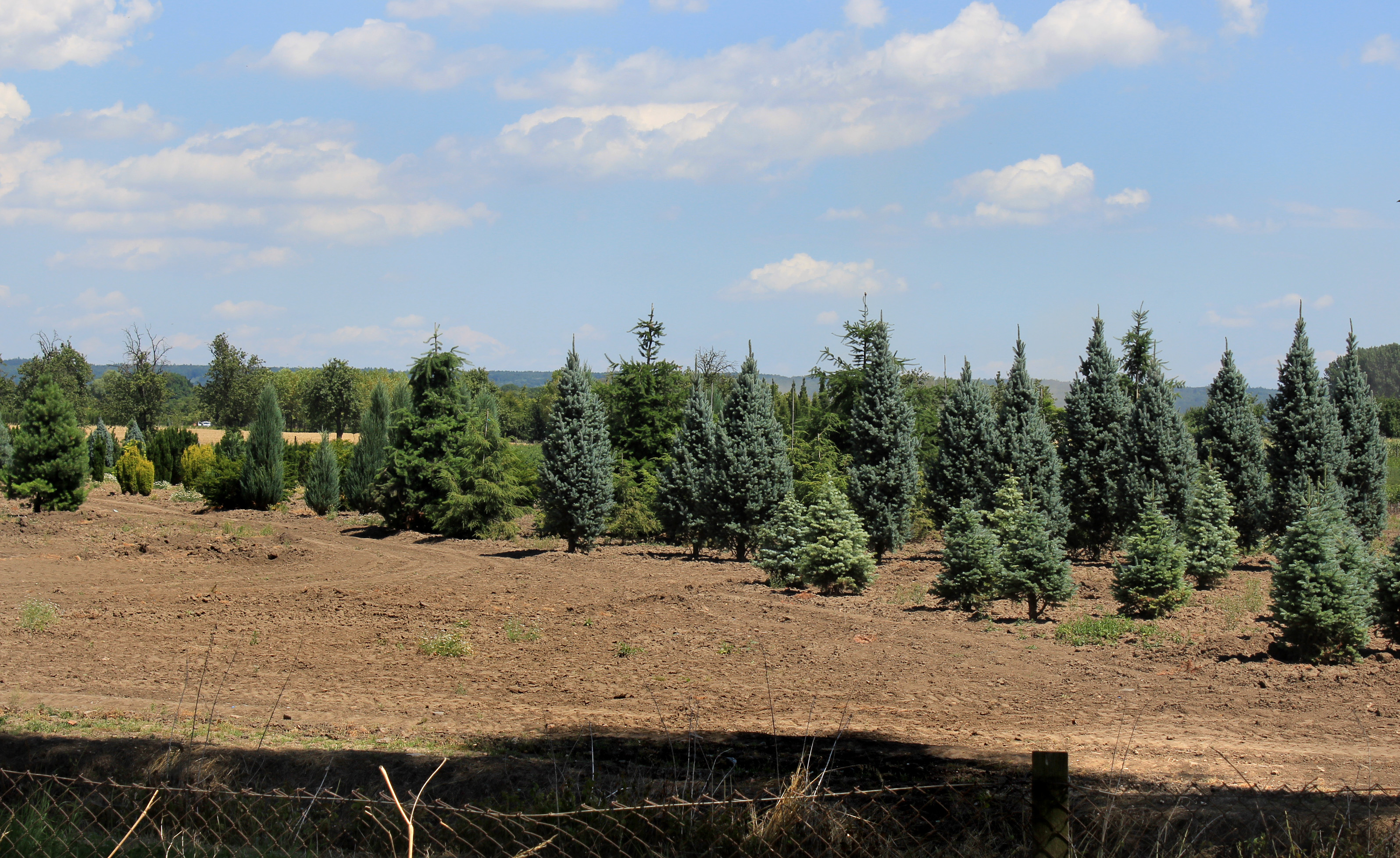 Forest tree nursery in Druhanice, part of Chotusice, Czech Republic.